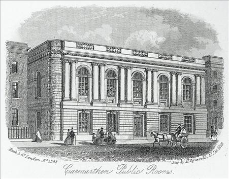 A 19th century engraving of the Carmarthen Public Rooms